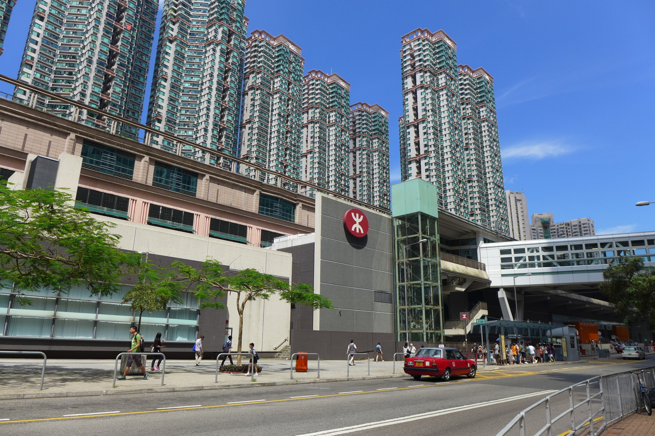 Po Lam Station